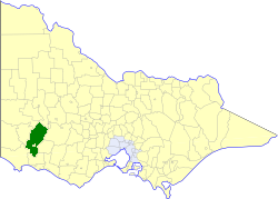 Location of the former Shire of Dundas within Victoria.